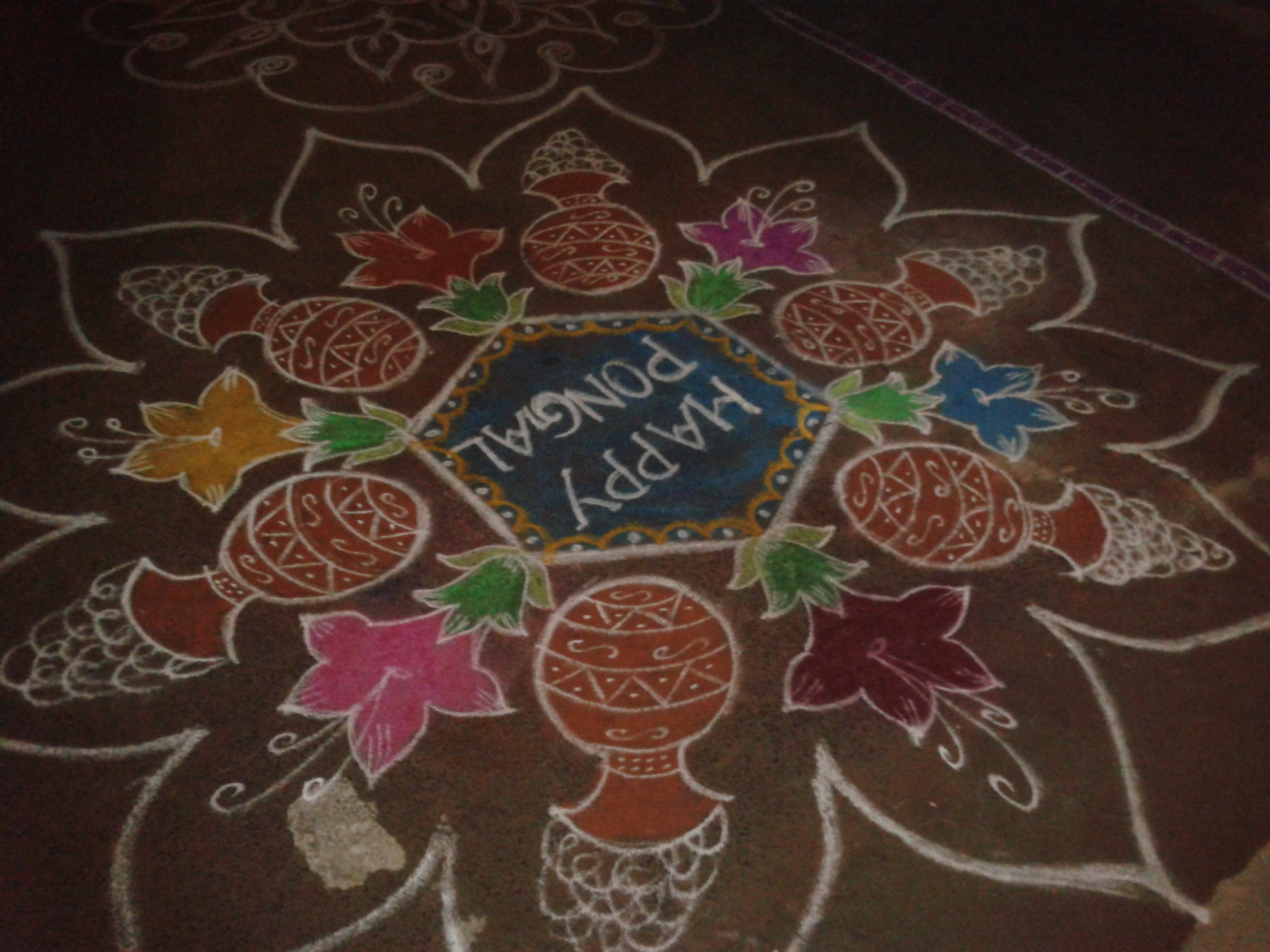 This Kolam was put on 13/01/13 for Pongal in Kattur Trichy